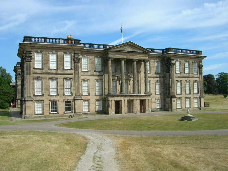 Calke Abbey Calke Abbey is a baroque mansion built in 1704 and set in an historical landscape park. It has become famous as a graphic illustration of the country house.